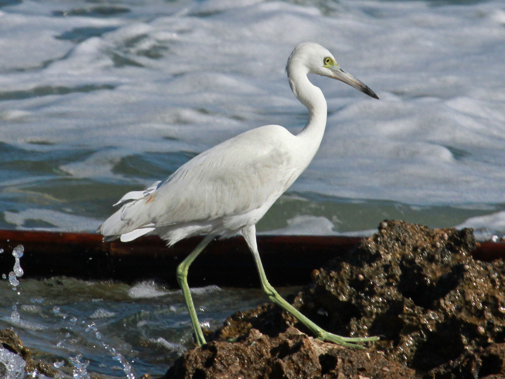 juvenile Little Blue Heron (Egretta caerulea) - Jamaica